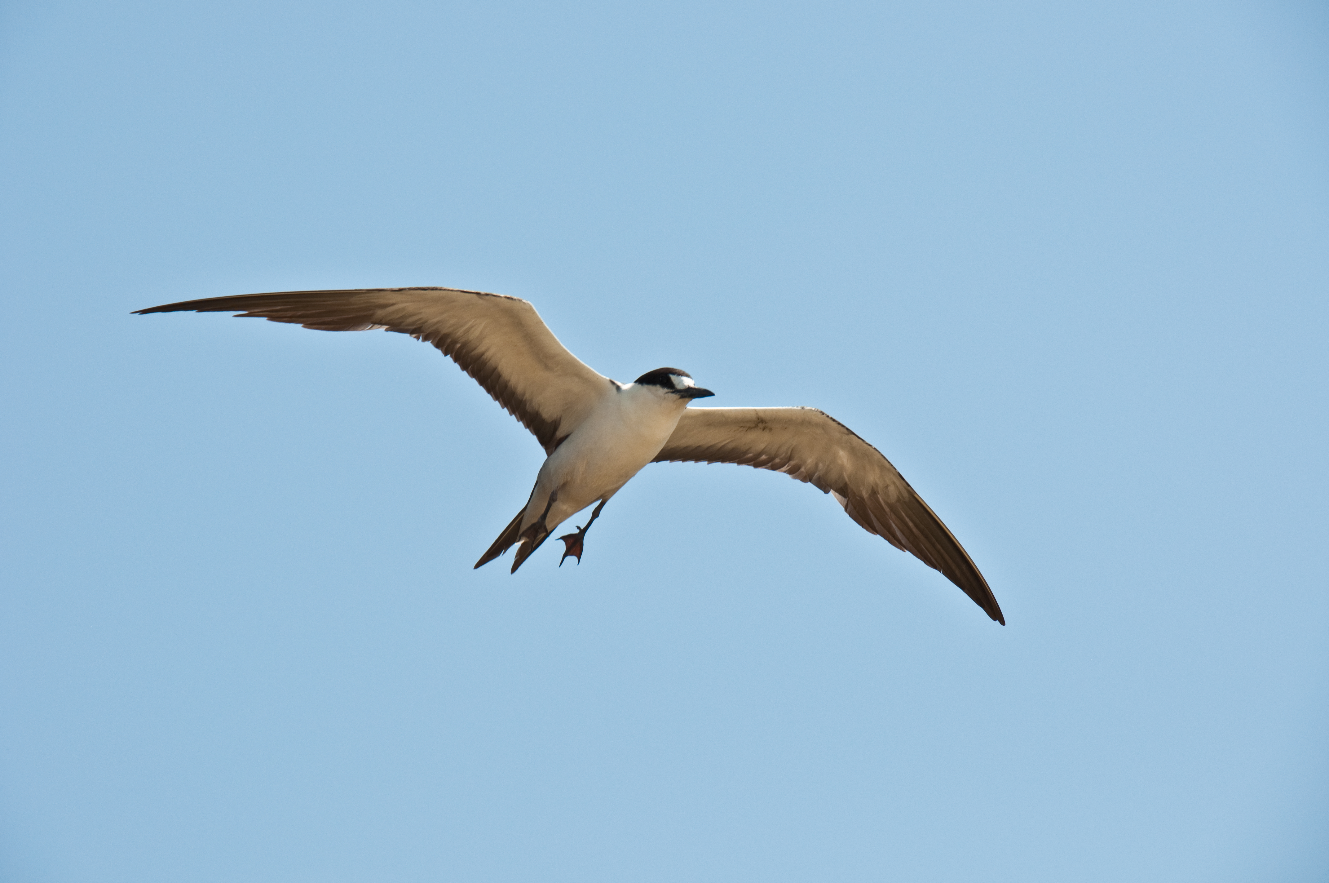 A Sooty Tern flying over Rodrigues Island in the Indian Ocean.